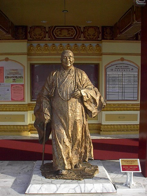 Statue of the Venerable Master Hsing Yun, founder of the Fo Guang Shan Buddhist Order. Taken by myself during the 2005 Sangha Day celebrations at Hsi Lai Temple on July 17th, 2005.